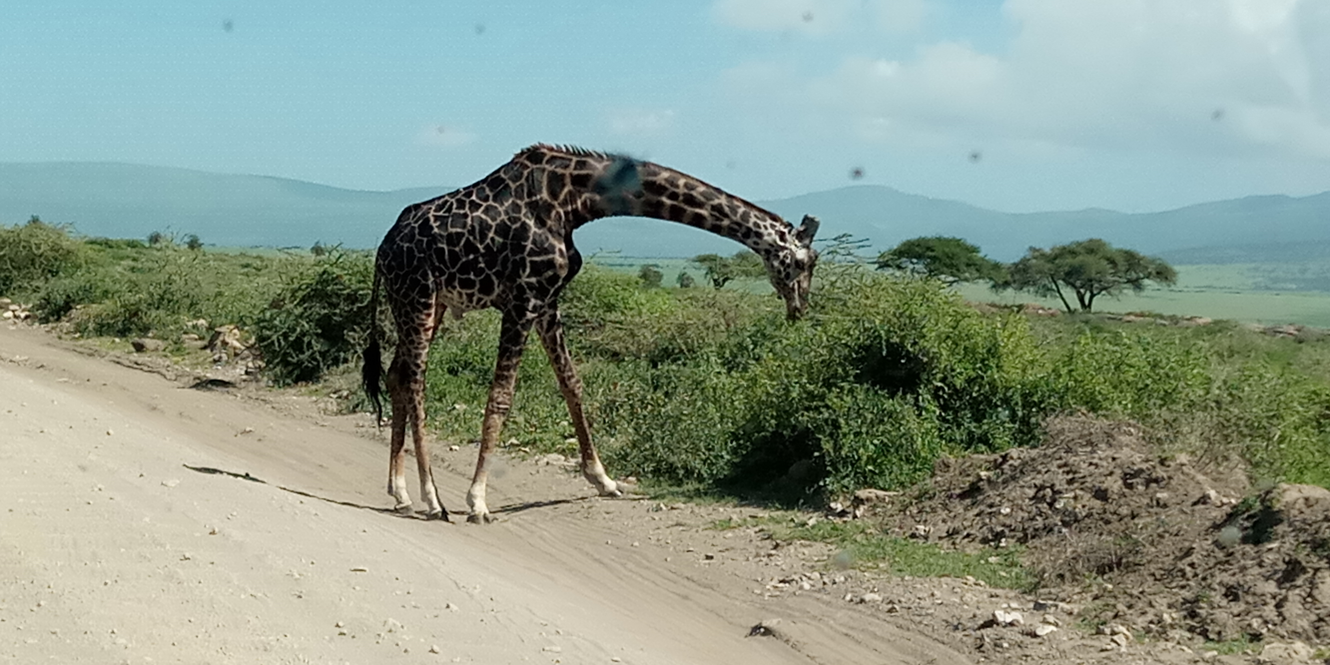 A Gerrafe eating a short glass